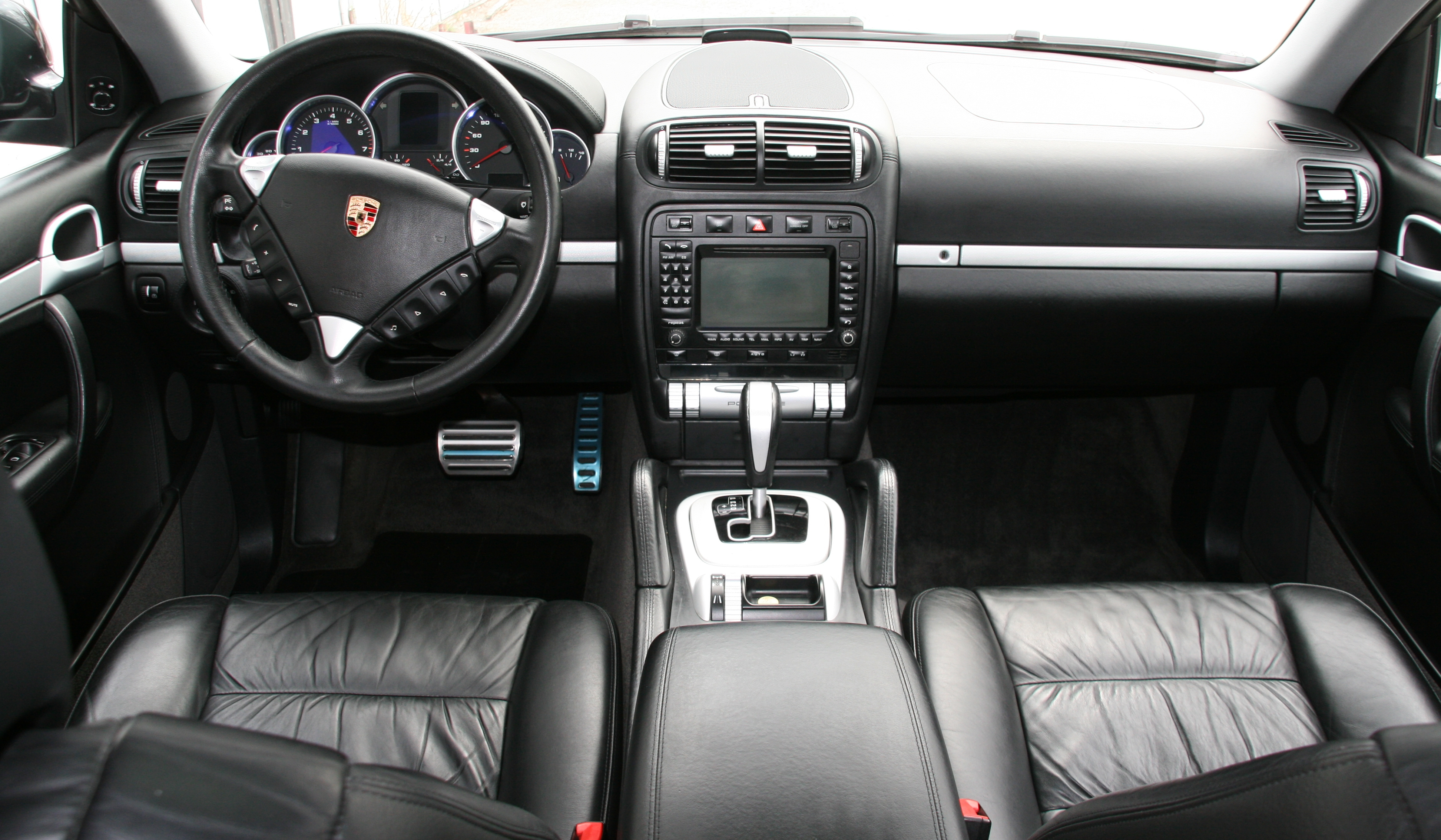 Porsche Cayenne S 12/2004 Cockpit